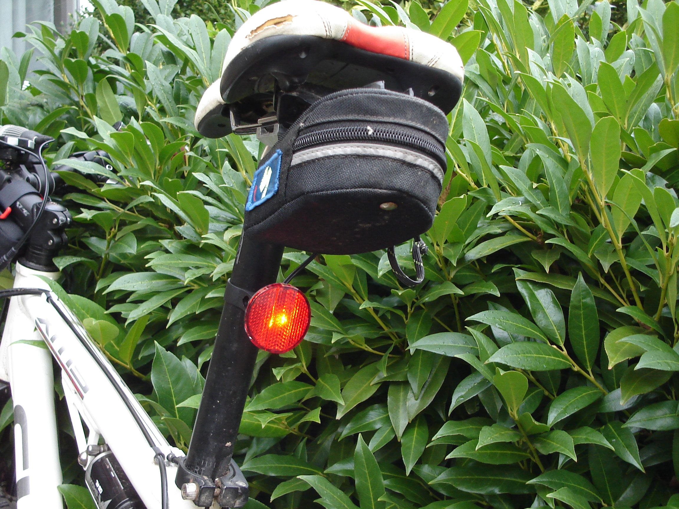 Battery powered LED tail light built in a standard reflector